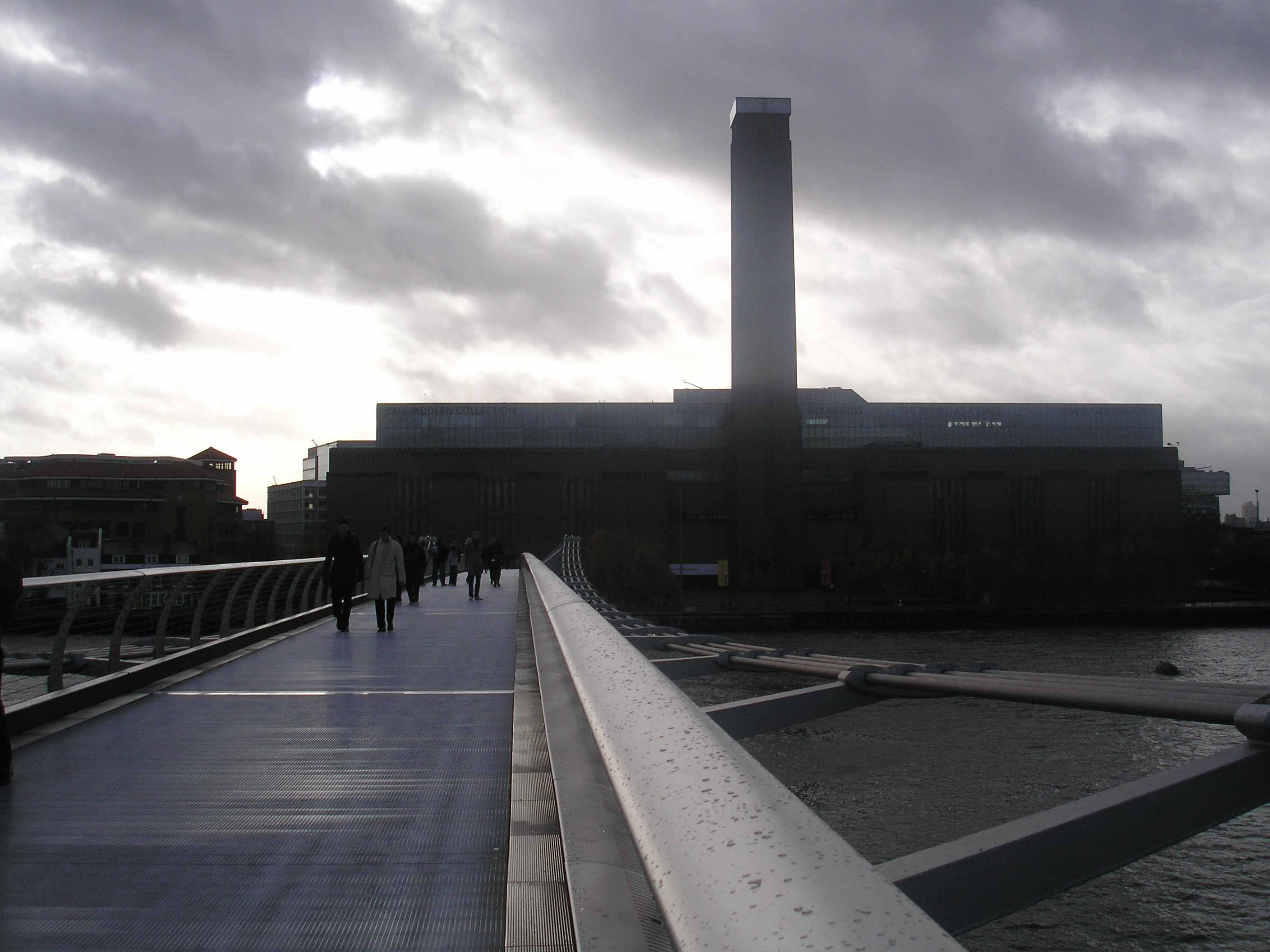 The Tate Modern, London